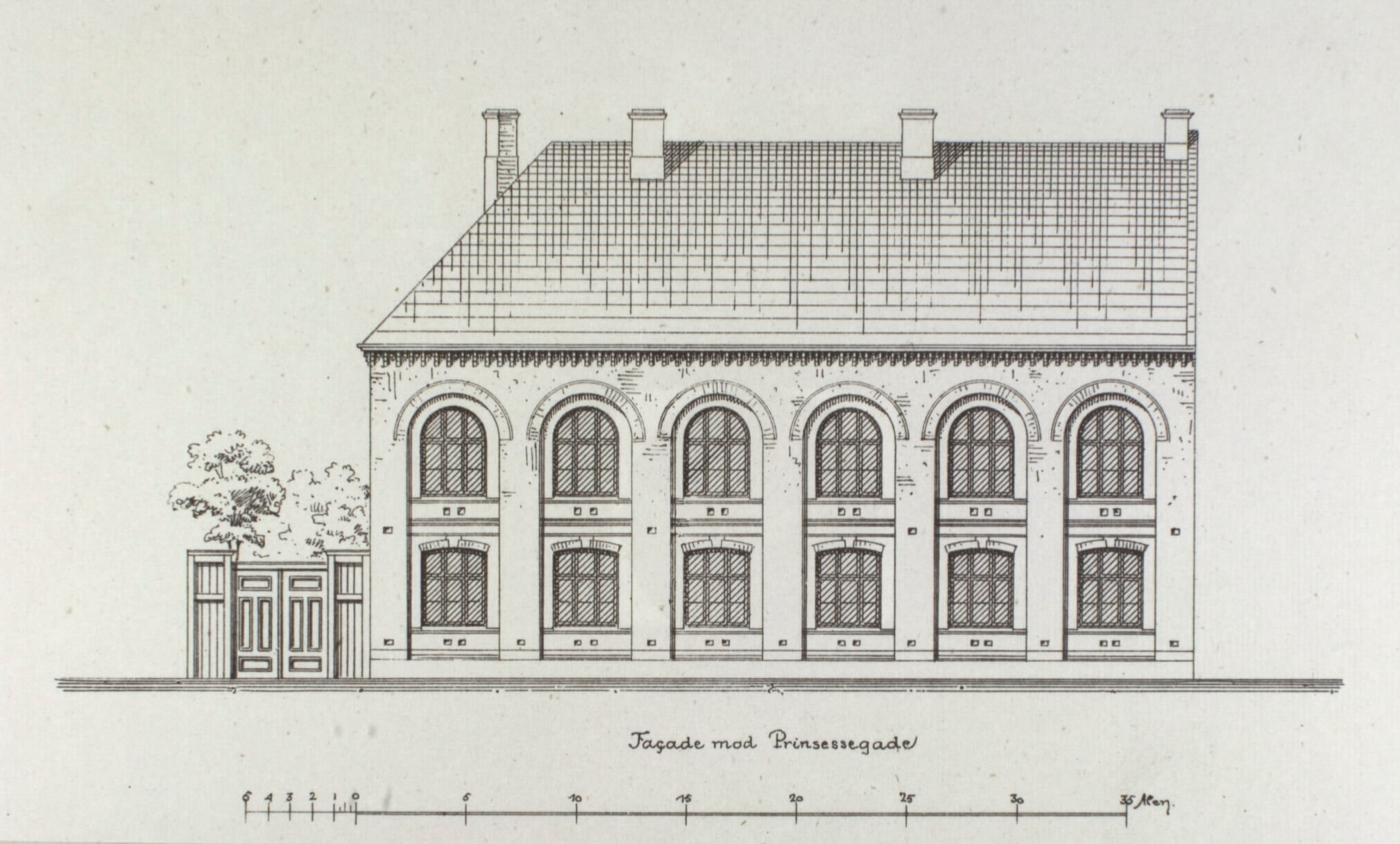 Cristianshavns betalingsskole at Prinsessegade 54 (prior to 1913: No. 44) in Copenhagen, Denmark Built in 1865.